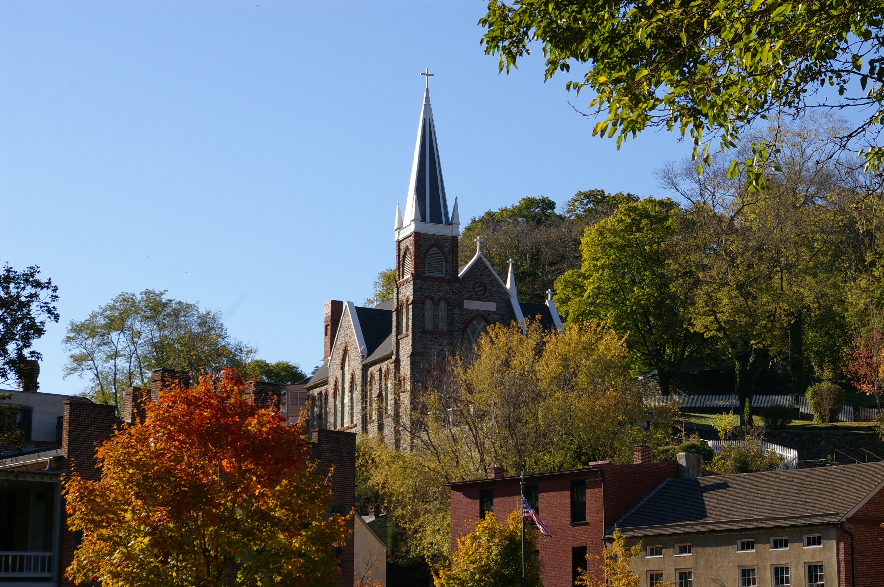 St. Peter's Catholic Church from the Lower Town of Harper's Ferry, West Virginia, USA.